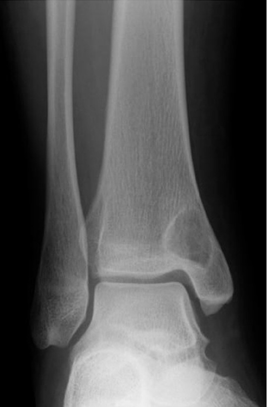 Intraosseous ganglion of the distal tibia in a 37-year-old woman. Plain radiograph shows an osteolytic lesion with marginal osteosclerosis. Three years after the operation of curettage and bone grafting, osteosclerosis is seen.